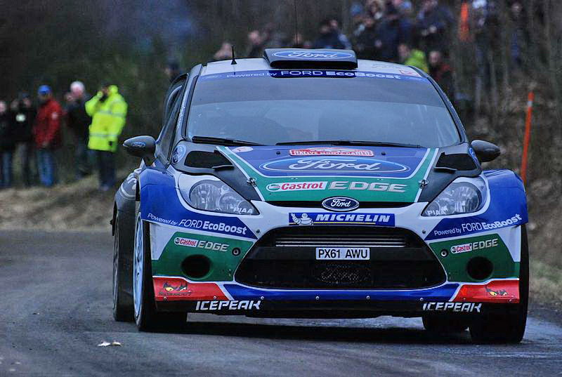 Driver Peter Solberg, Codriver Chris Patterson in Rallye de Monte-Carlo 2012